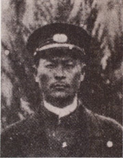 Jang Jin-hong's photo